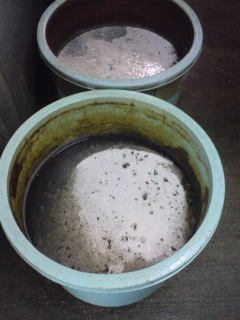 Kusaya marinade (Hachijō-jima)